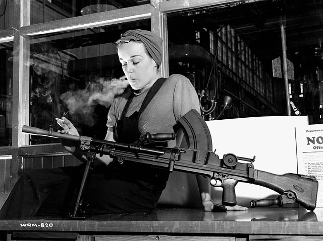 Veronica Foster, an employee of John Inglis Co. Ltd. and known as "Ronnie, the Bren Gun Girl" posing with a finished Bren gun in the John Inglis Co. Ltd. Bren gun plant, Toronto, Ontario, Canada. This photo is an excellent example of official government coverage of workers at home during the Second World War. First produced in 1937, the Bren Gun became one of the most widely used machine guns of its kind and was a staple for line troops during the Second World War. Veronica Foster is depicted here as in other photos posing in a provocative manner, caressing the Bren gun while exhaling cigarette smoke.